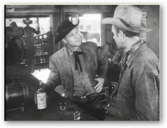 Cropped screenshot of the film Winchester '73